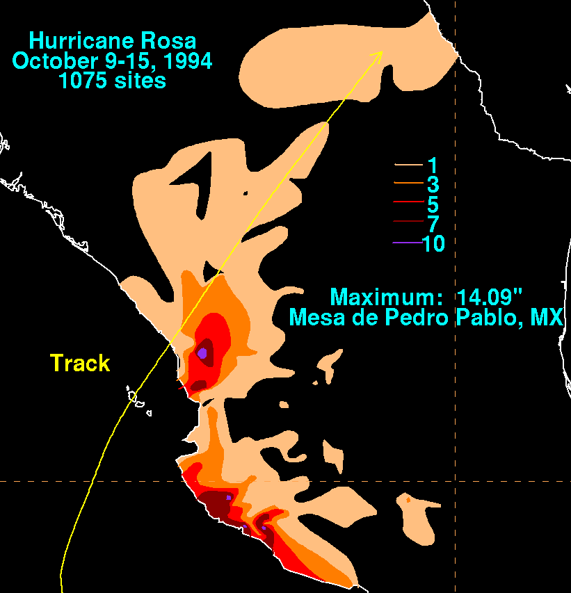 Storm total rainfall map of Hurricane Rosa during October 1994.